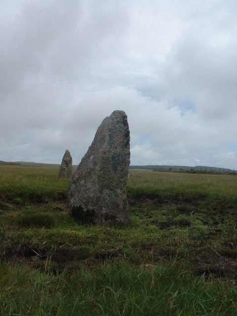 Stone Circle by track on King Arthur's Downs. On Bodmin Moor. Note added 2013: Probably one of the Emblance Downs stone circles (grid reference SX13487750) rather than the Leaze stone circle (grid reference SX13667728).